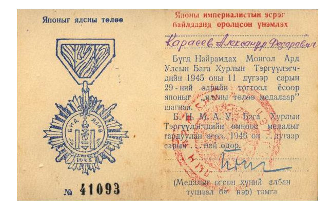 Diploma, Mongolia 1945 Victoryover Japan Medal